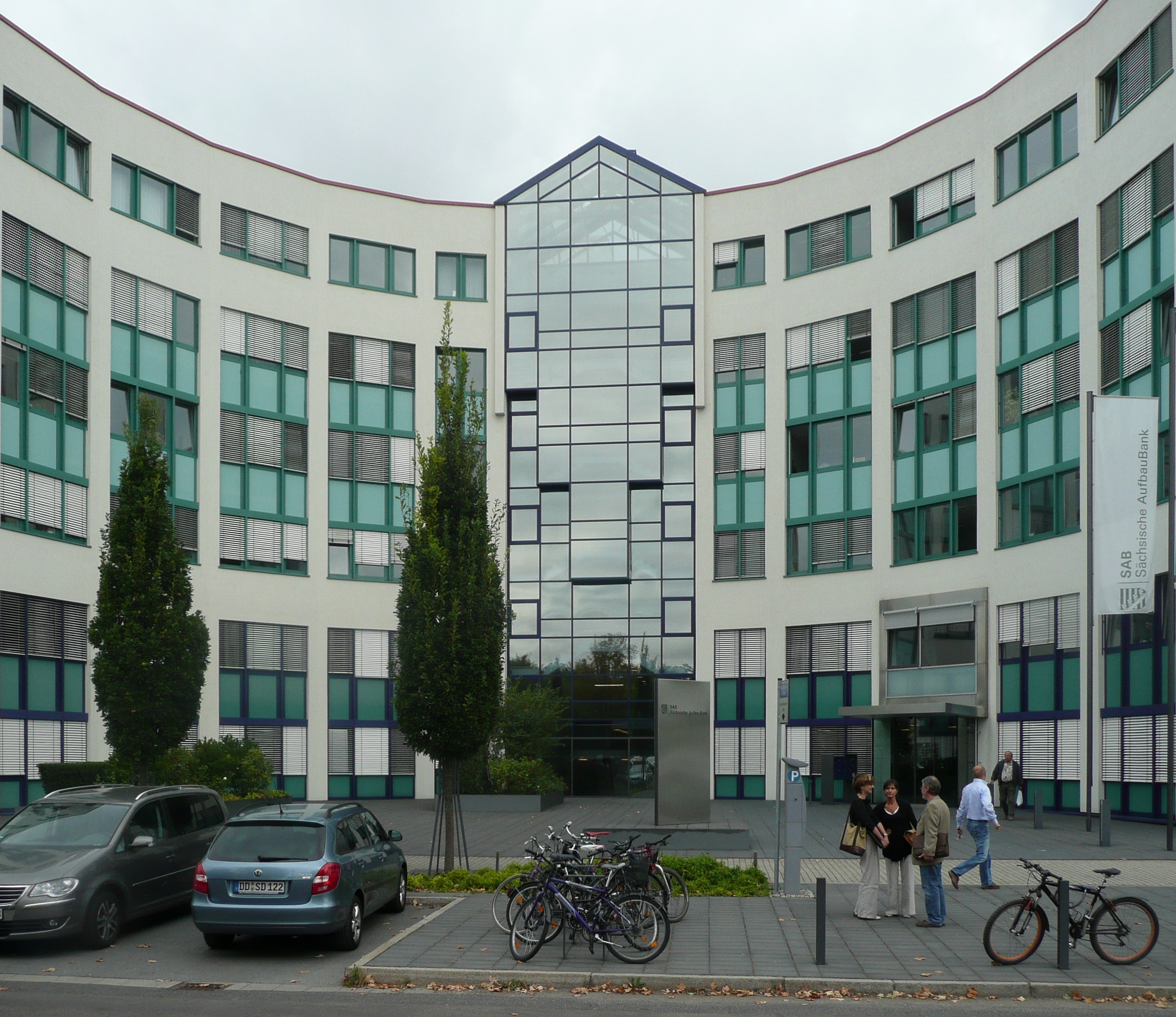 This image shows the headquarter of the SAB, the Development Bank of Saxony, in Dresden.